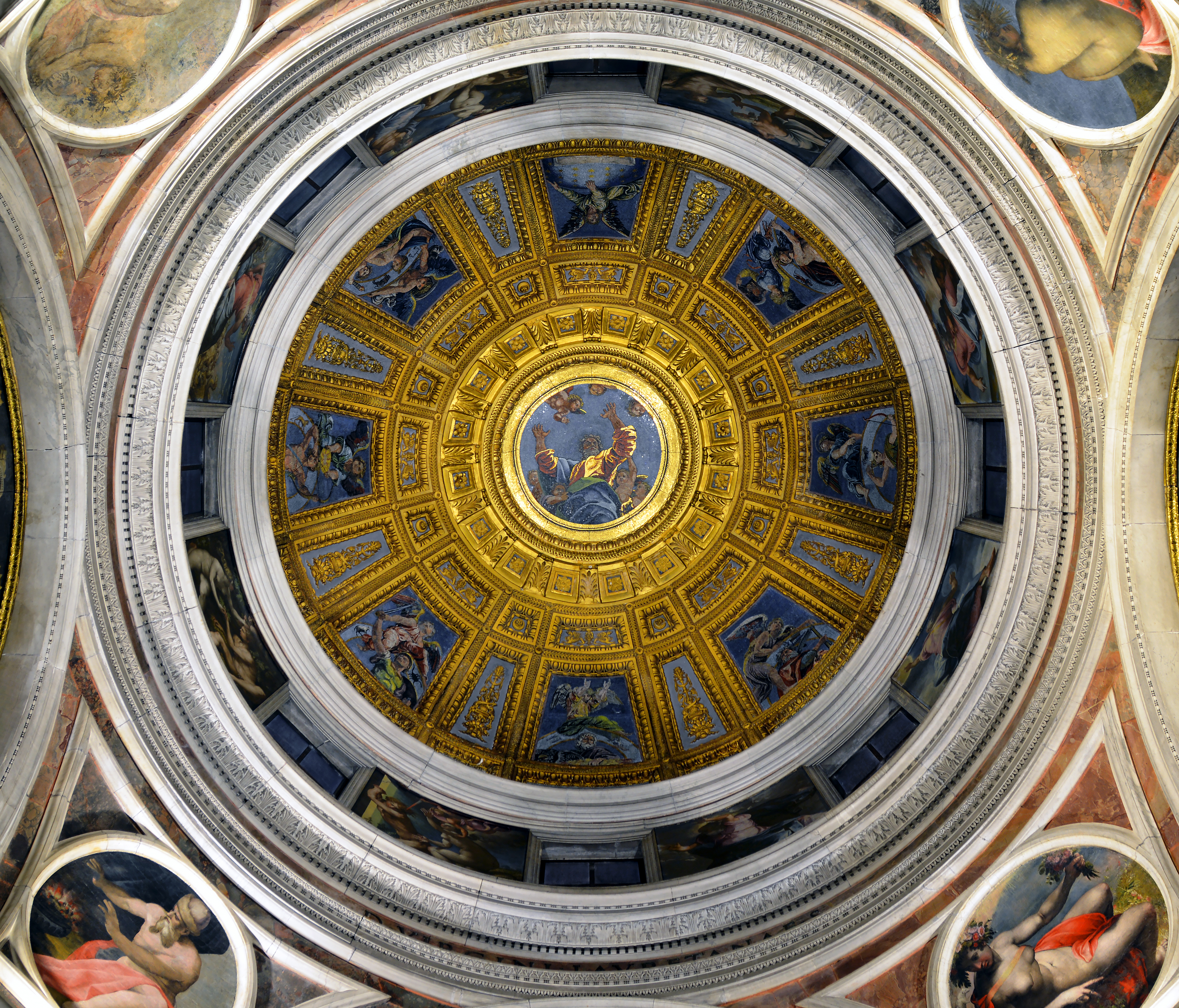 Dome Cappella Chigi, Santa Maria del Popolo (Rome)